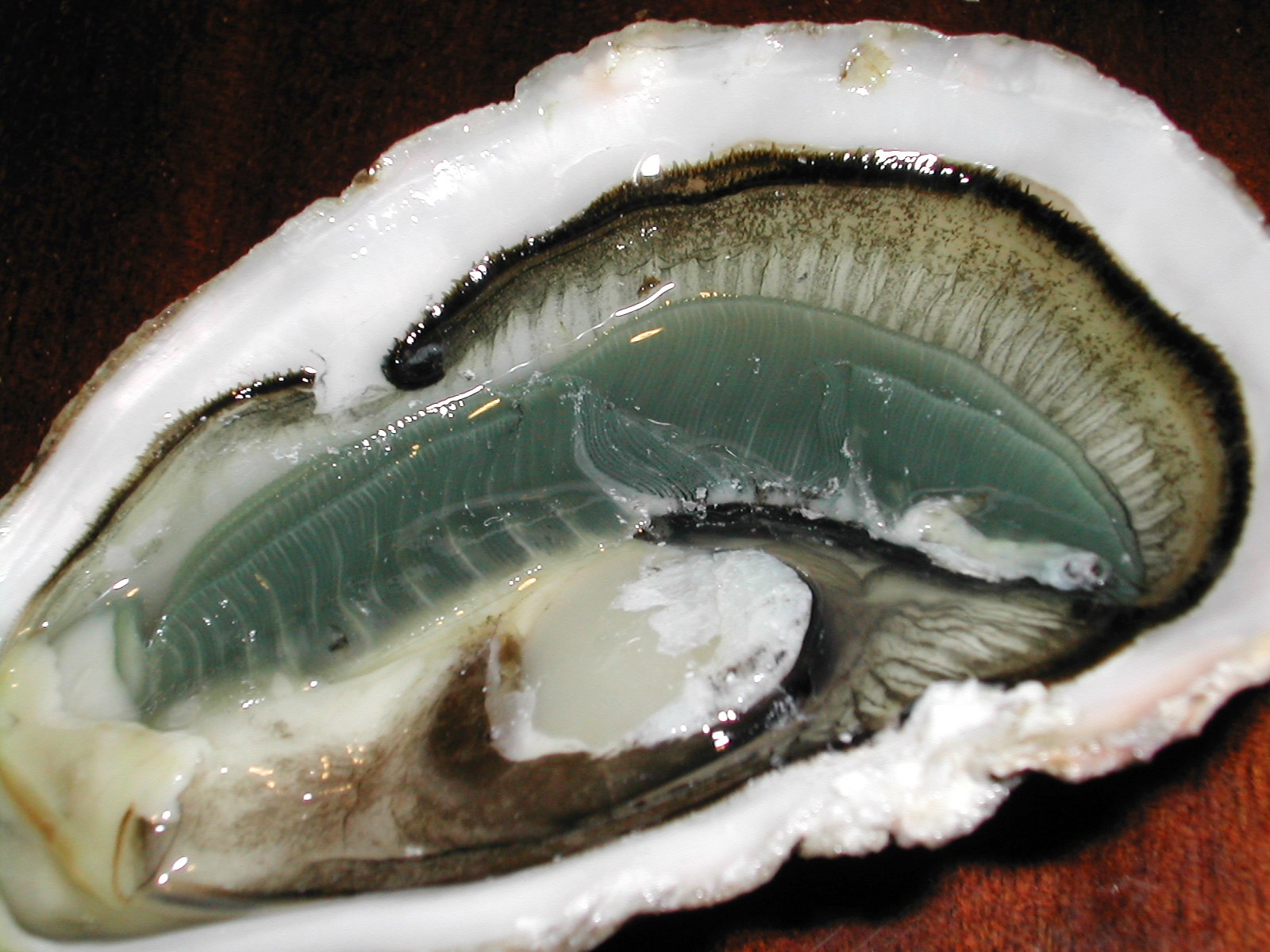 oyster (large)